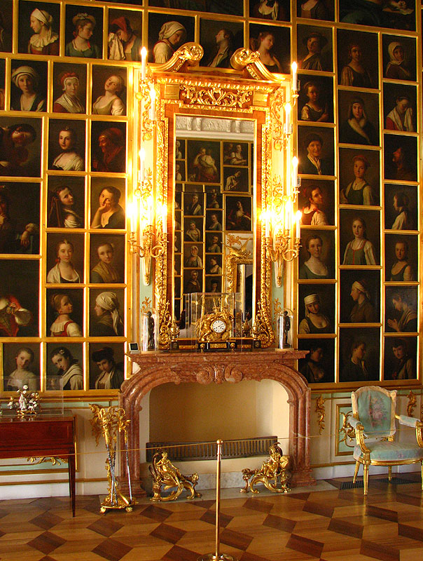 Peterhof palace